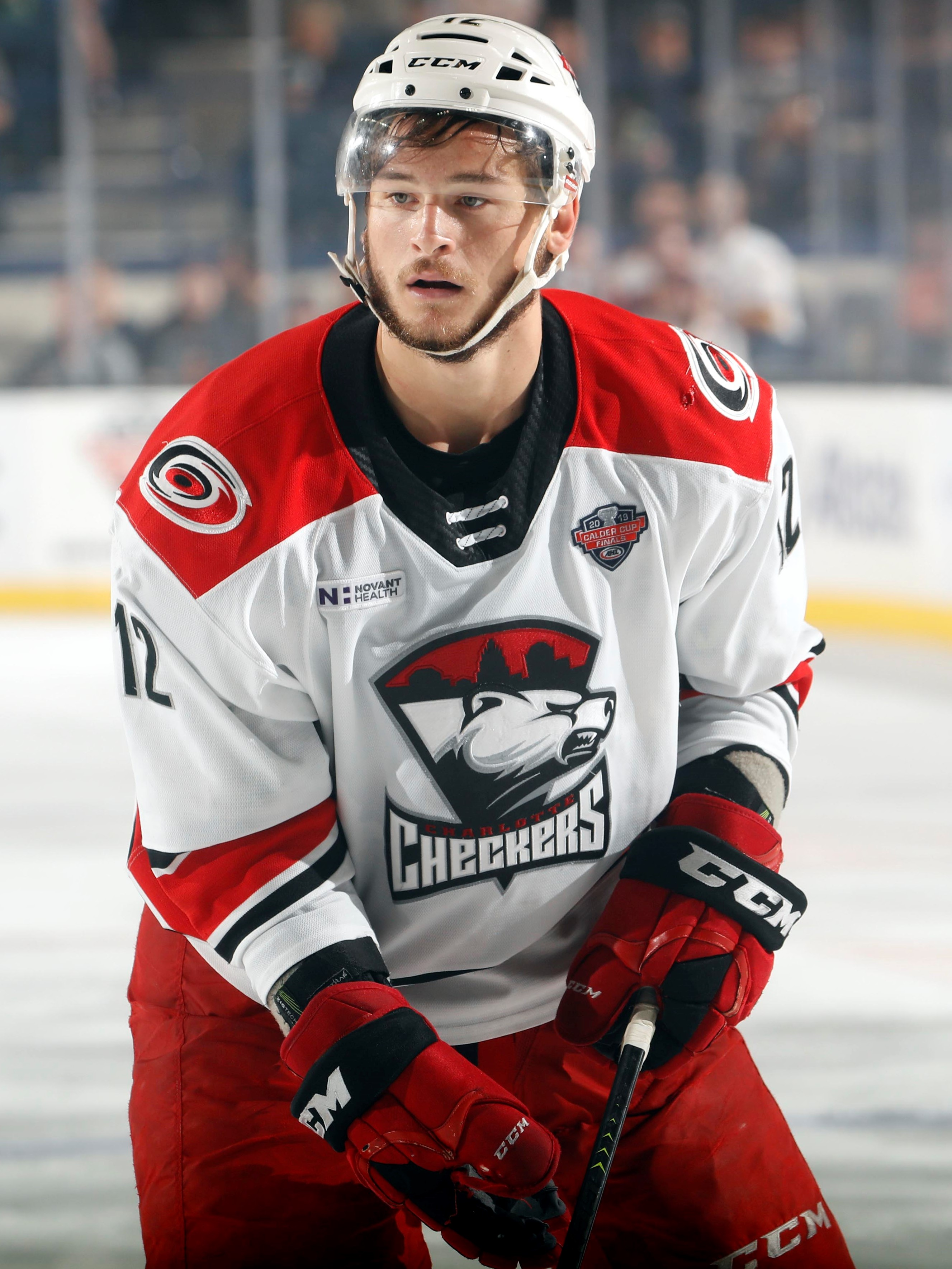 Photo: Ross Dettman